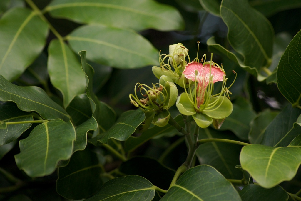 Afzelia quanzensis Fabaceae Pod mahogany, Lucky bean tree Attractive, medium-sized to large deciduous tree, native to tropical Africa. The wood, known as Chamfute, is hard and durable. The tree is threatened by illegal cutting for wood carvings. Mt. Coot-tha Botanic garden, Brisbane